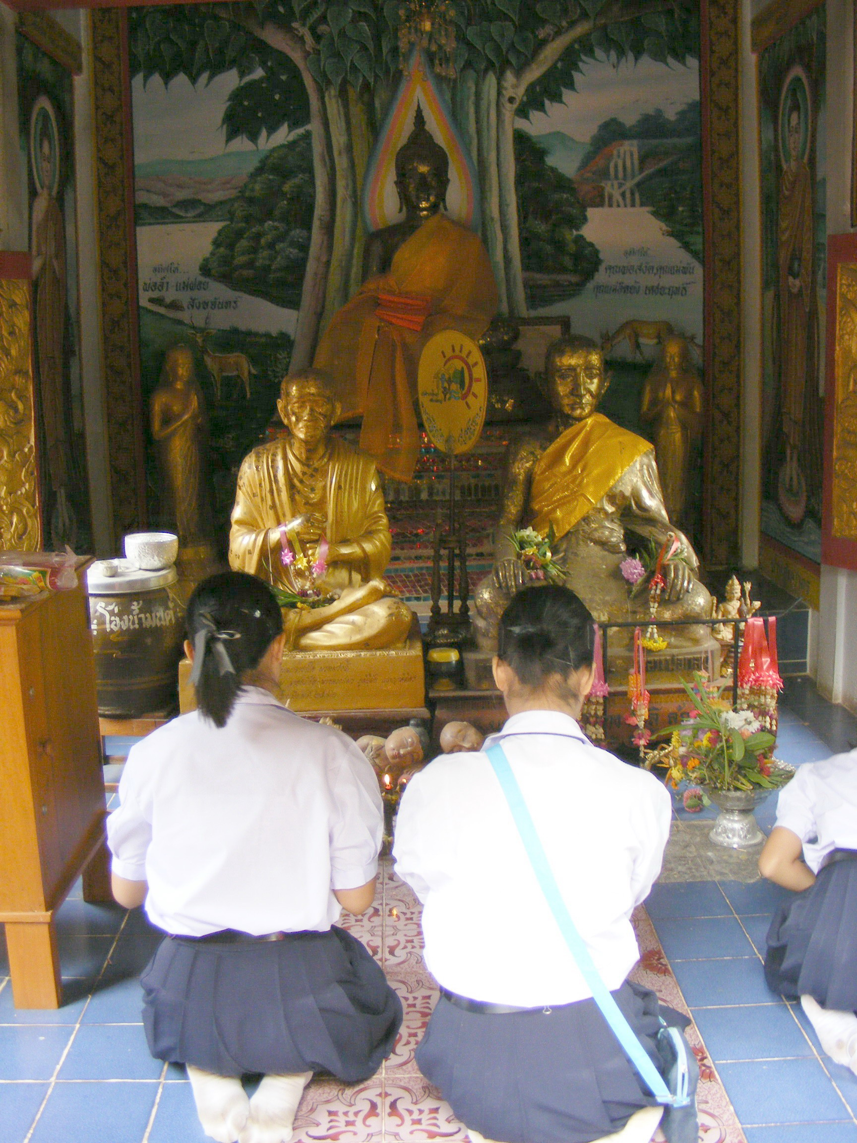 student pays respect to the Buddha in front of temple of Phrakhru Thamma Kitcha Phi Ban ( Klom ) past Buddhist temple abbot of Wat Doi Tha Sao , Mueang Uttaradit, Uttaradit Province, Thailand.